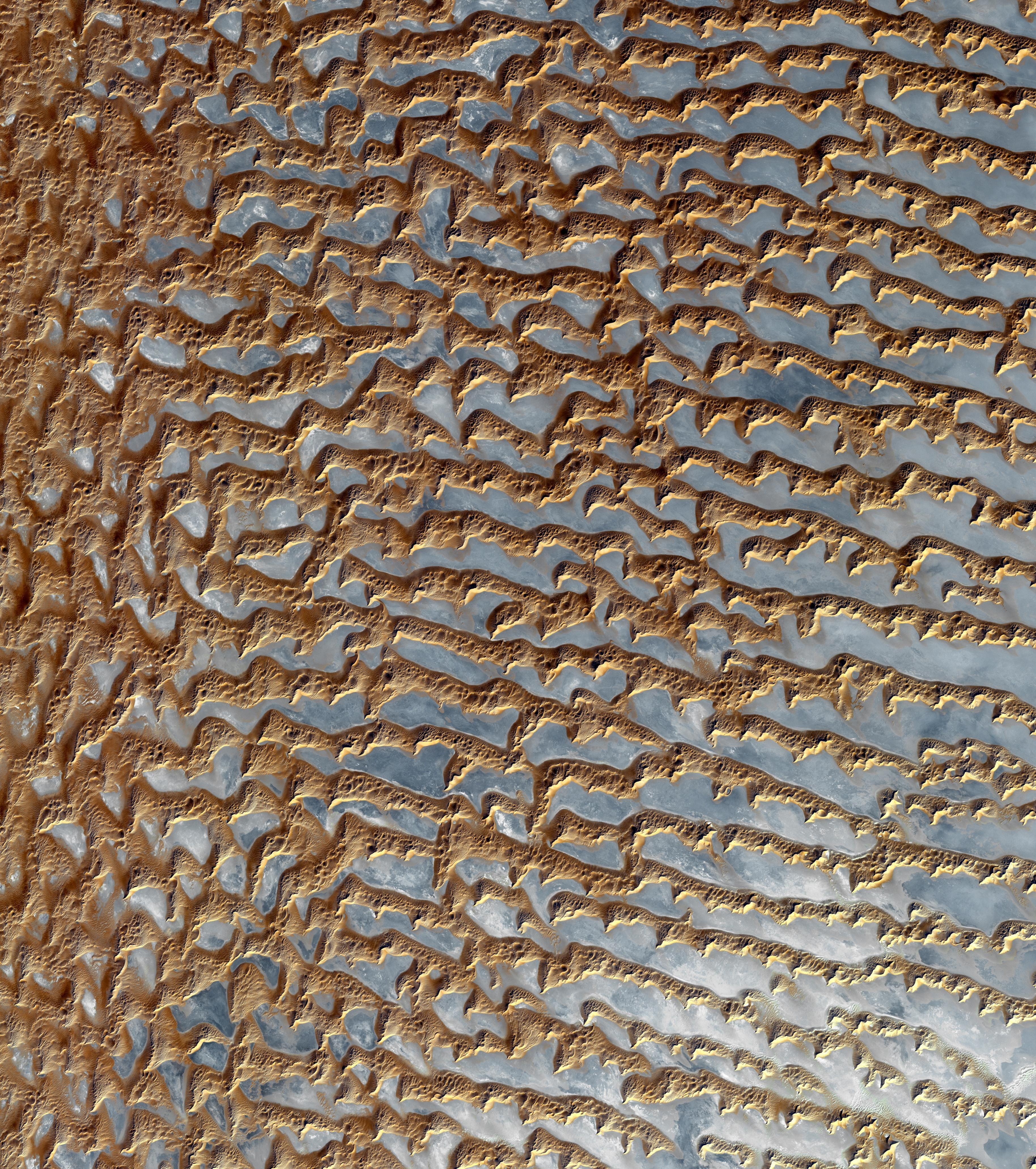 Image of sand dunes in Rub' al Khali, Arabia's "empty quarter". Acquired by the Advanced Spaceborne Thermal Emission and Reflection Radiometer, or ASTER, aboard NASA's Terra Earth-orbiting satellite.